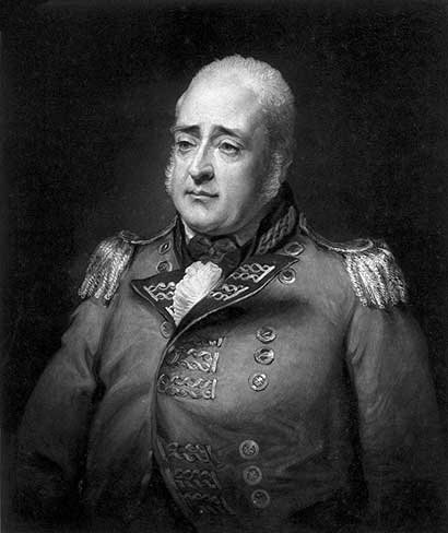 Henry Edward Fox (1755-1811)